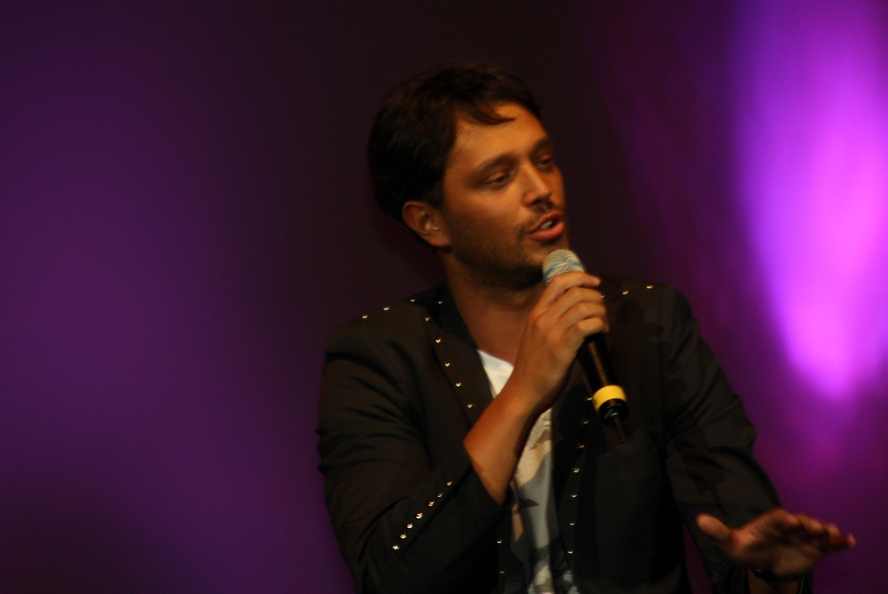 Murat Boz.